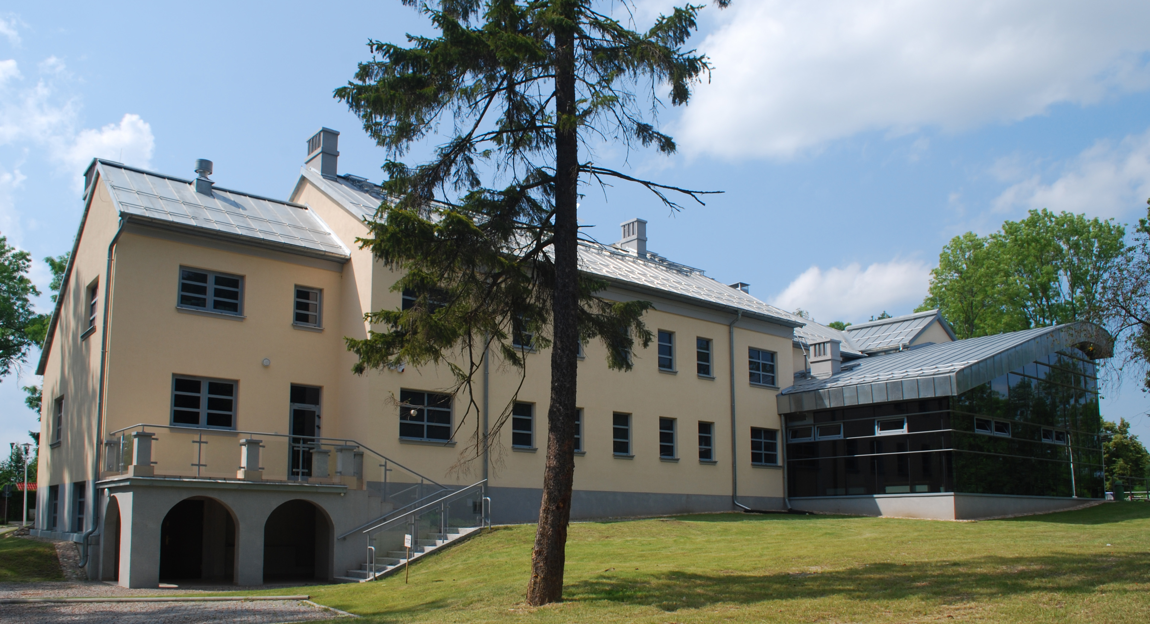 This photo from Podlaskie Voievodeship was taken during Polish Wikiexpedition 2009 set up by Wikimedia Polska Association. The making of this document was supported by Wikimedia Polska. Muzeum Wigier w Starym Folwarku.